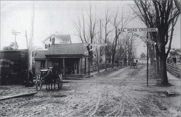 A photo of Stone Haven station on Mt. Vernon St. in Dedham, Massachusetts, looking north. In the background is the home of Col. Eliphalet Stone.